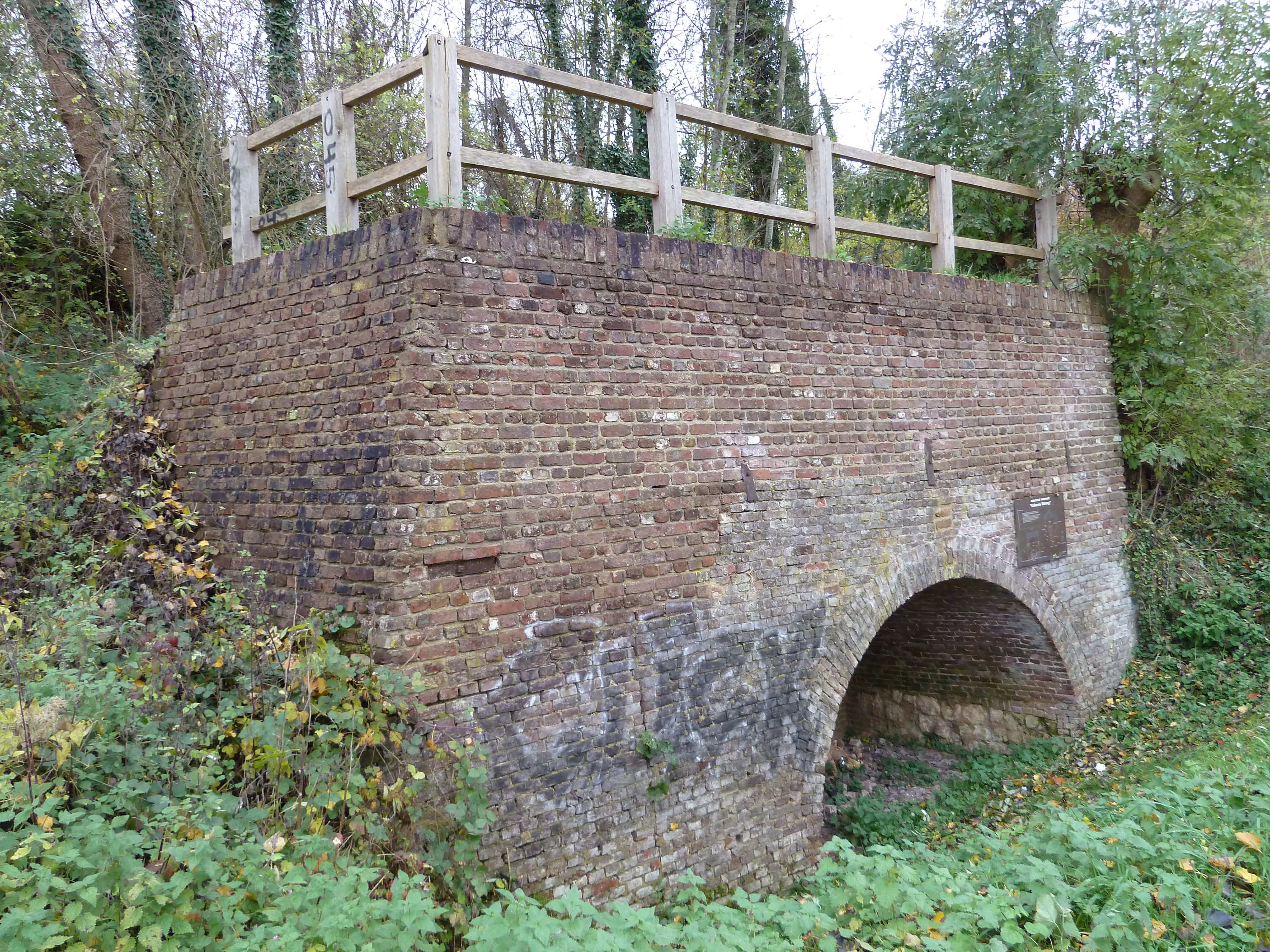 Industrial monument Kalkoven Midweg, Voerendaal, Limburg, the Netherlands